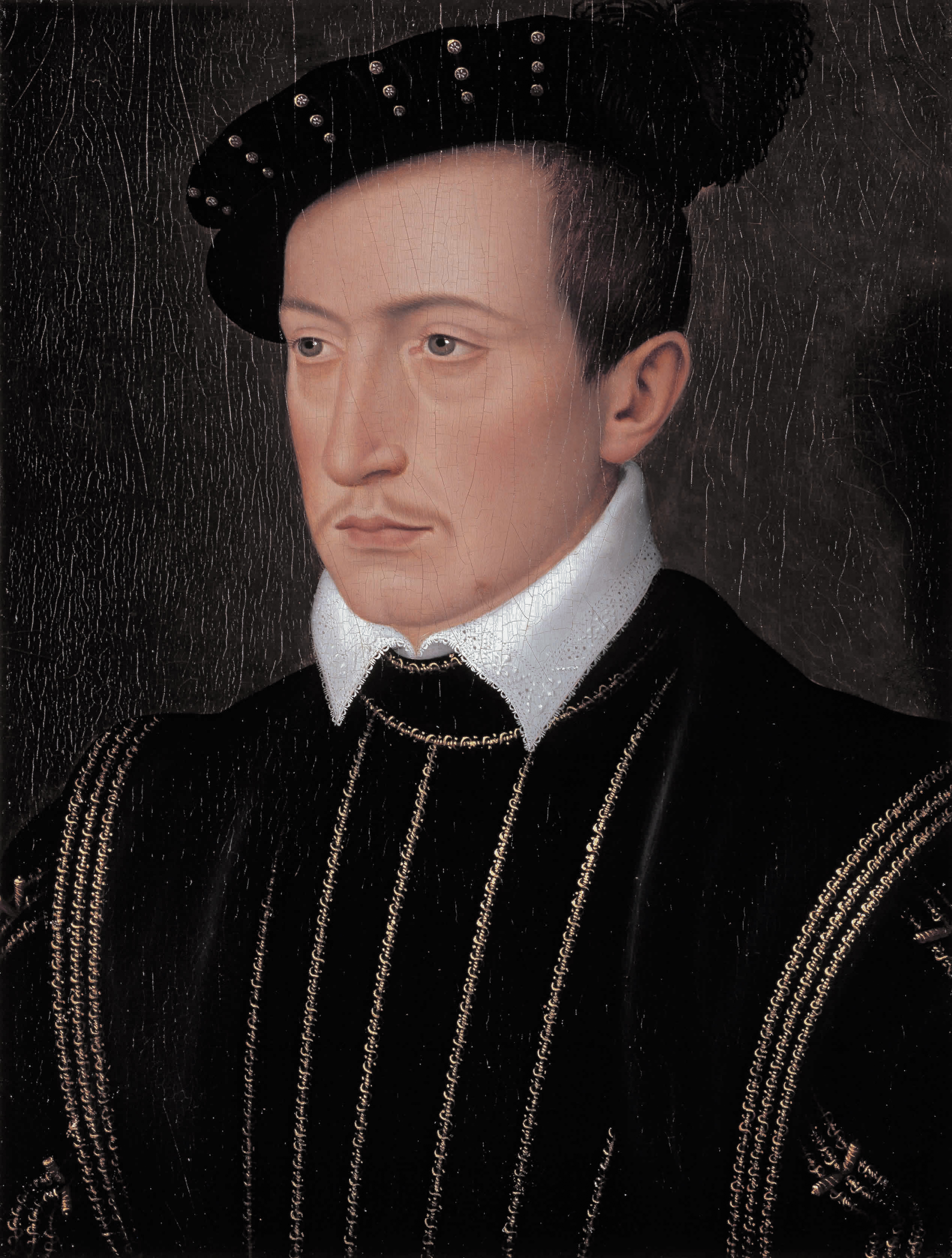 Guy XVII, Comte de Laval oil on panel 32.2 x 24.4 cm circa 1540